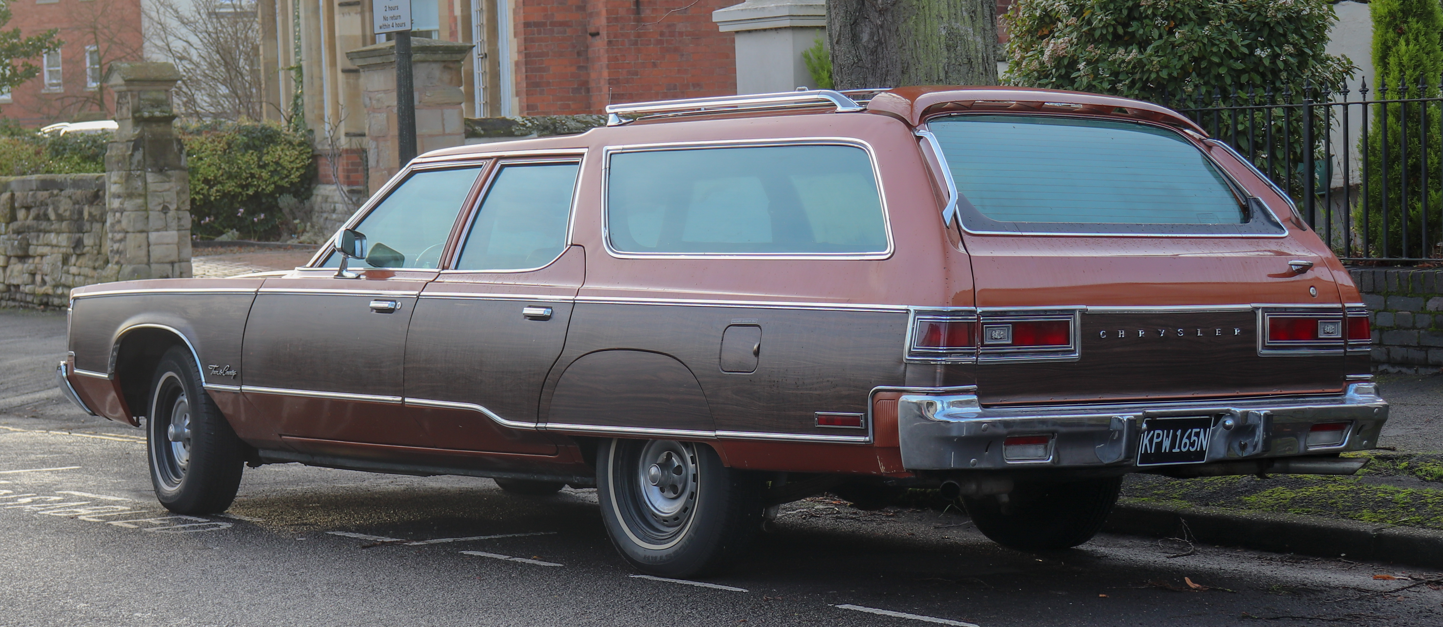 1975 Chrysler Town & Country Station Wagon 7.2 Rear Taken in Leamington Spa